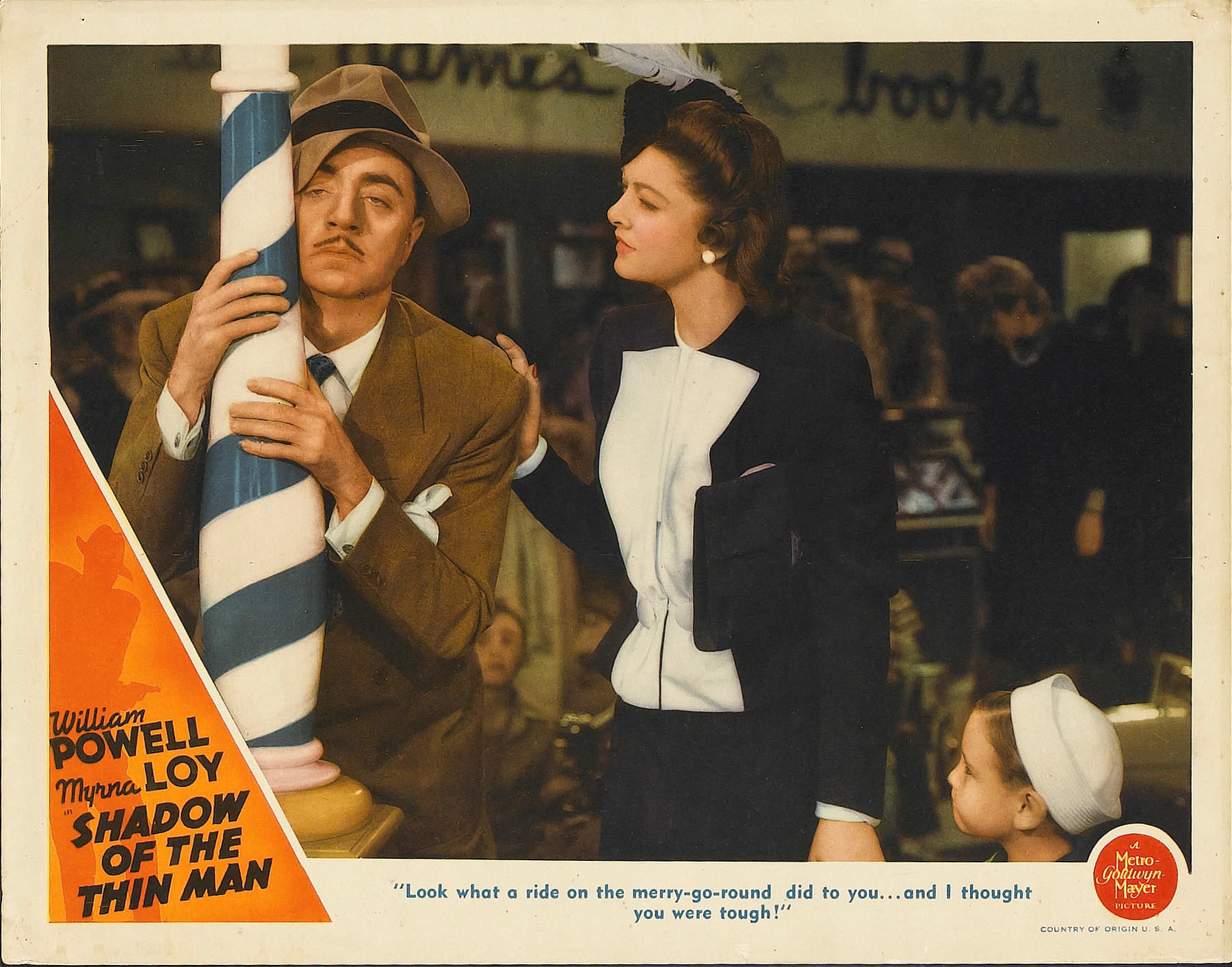 Lobby card for the 1941 film Shadow of the Thin Man. Myrna Loy is wearing a costume designed by costume designer Robert Kalloch.